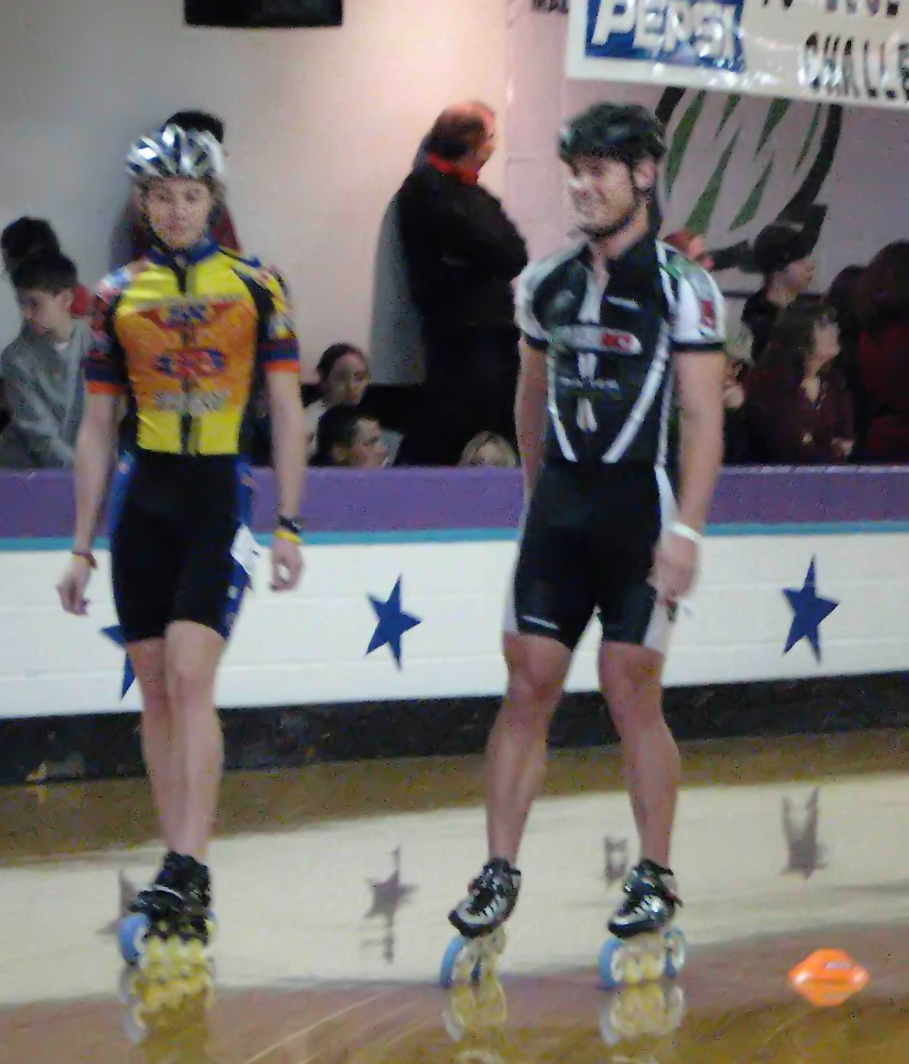 Jonathan Garcia (right) and Joey Mantia (left) warm up for the 2007 Blue Ridge Challenge in Virginia